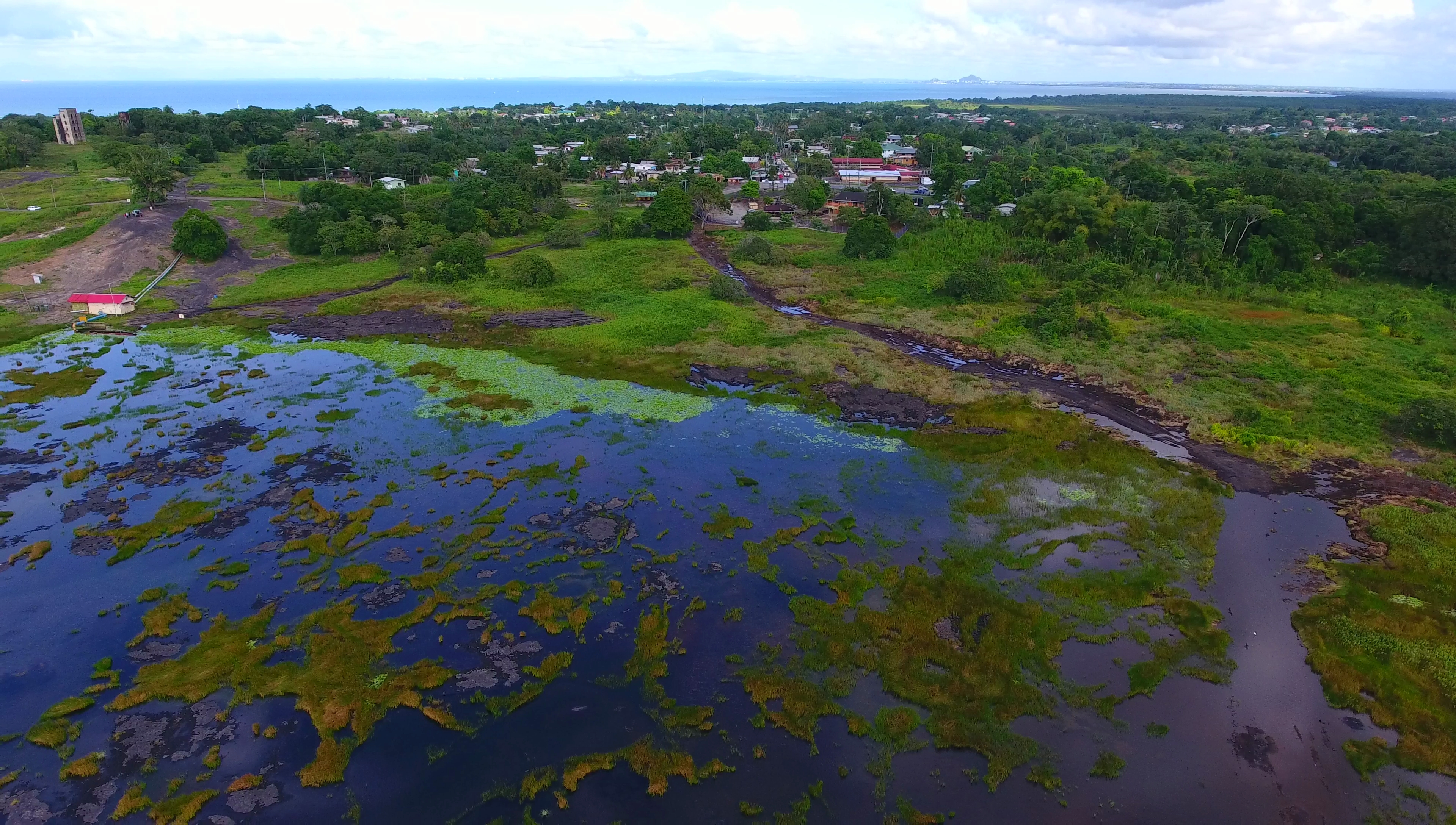 La Brea, Siparia, Trinidad and Tobago. Front: La Brea Pitch Lake. Back: Otaheite Bay, Gulf of Paria. Photo taken as part of the Southern Trinidad Aerial Photo Project, a small project sponsored by WMDE. Drone used: DJI Phantom 4. Snapshot taken from video footage via VLC.